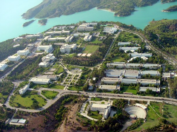 Photoshot of Cukurova University, Balcalı Campus.